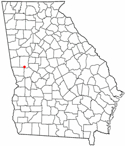 Location map of Warm Springs, Georgia.